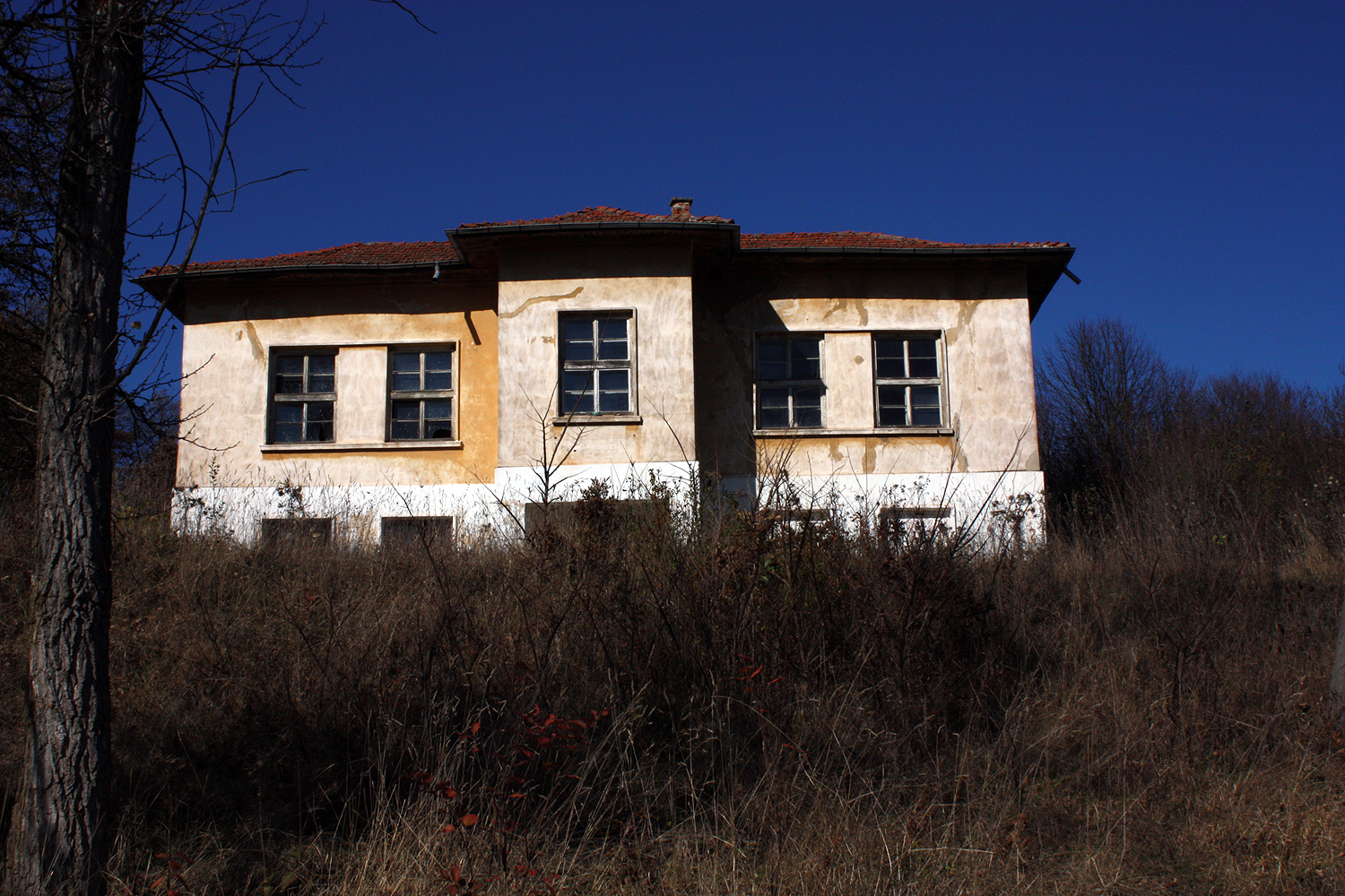 Deserted school of Kalenovtsi